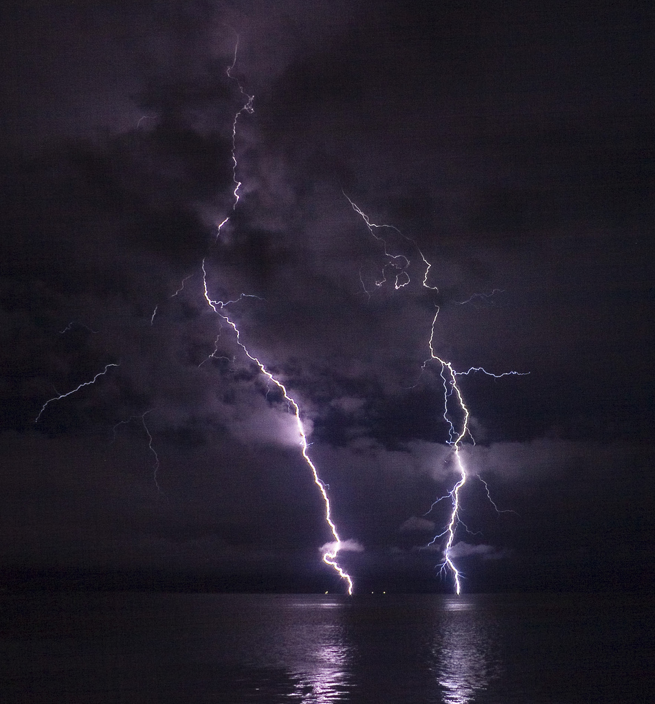 In the middle of the night we had a lightning storm, so I decided the smart thing to do was to go take pictures of it. Little did I know the lightning was less than a mile away; the strike you see here was certainly hitting the water. The sound of thunder followed almost immediately.